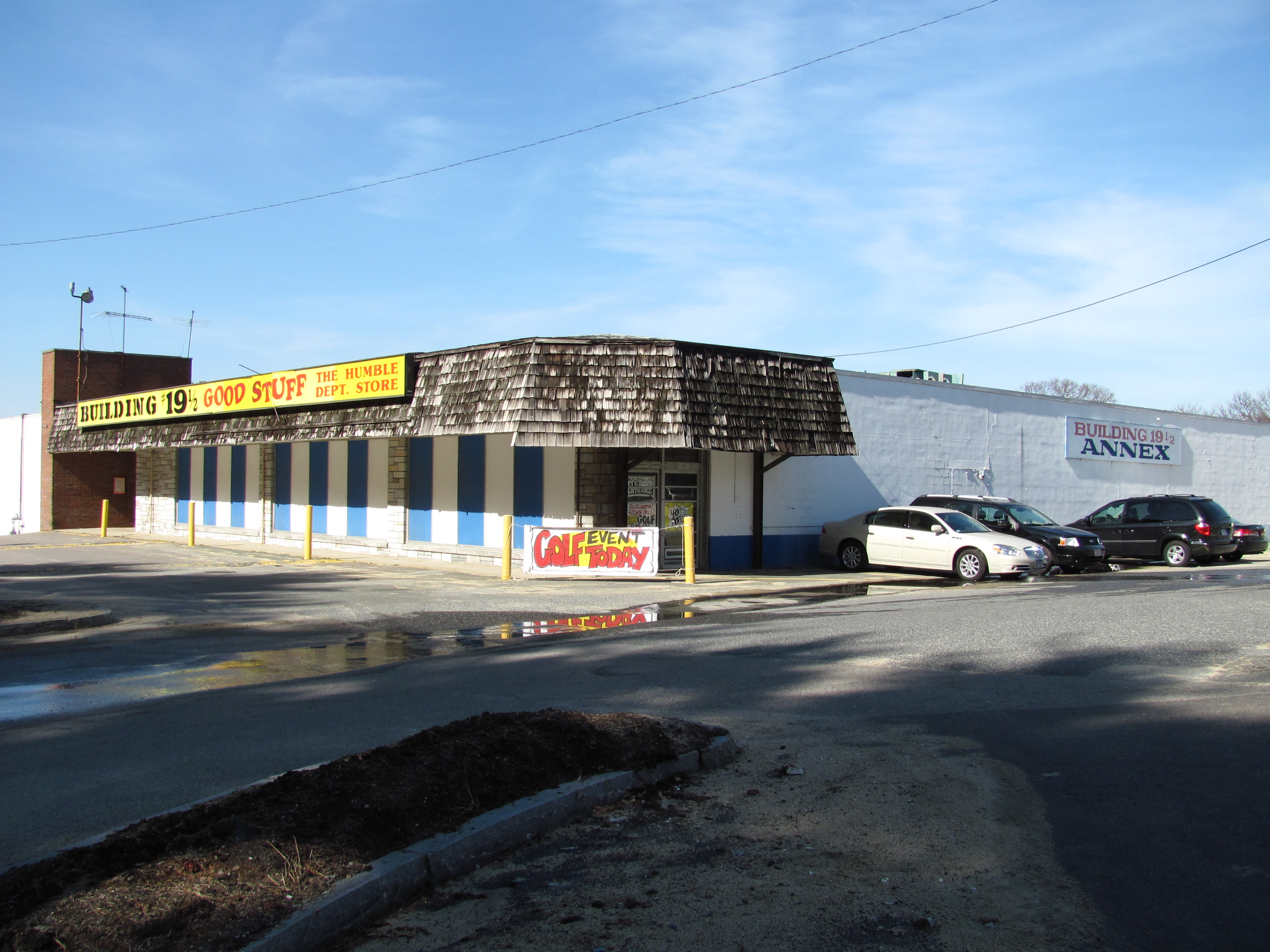 Building 19½, Burlington Massachusetts